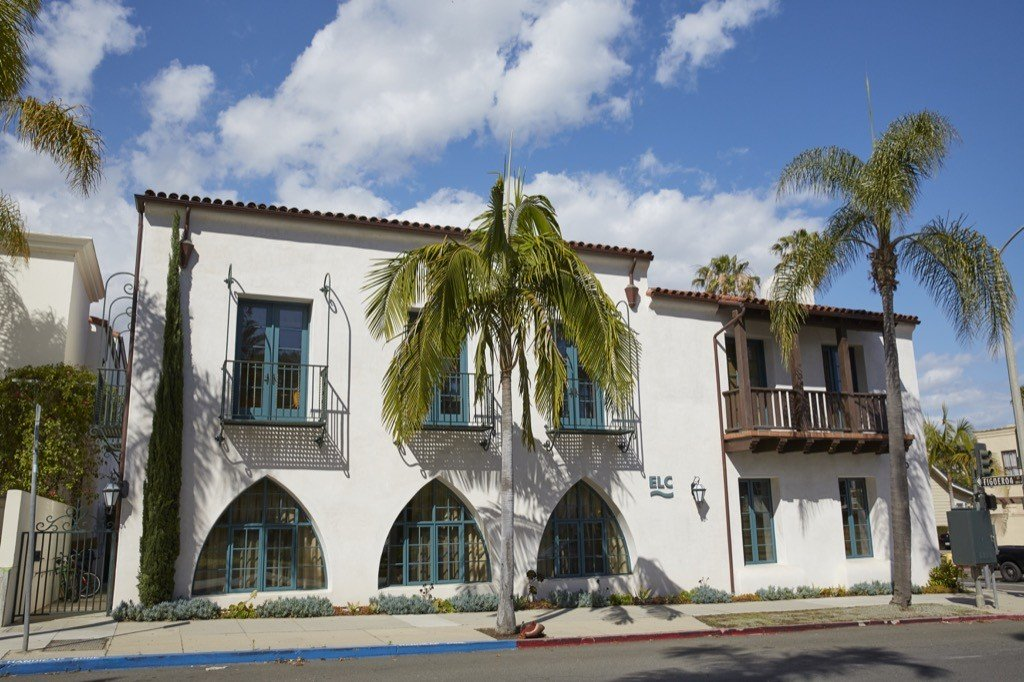 This is the exterior of the building of ELC in Santa Barabara